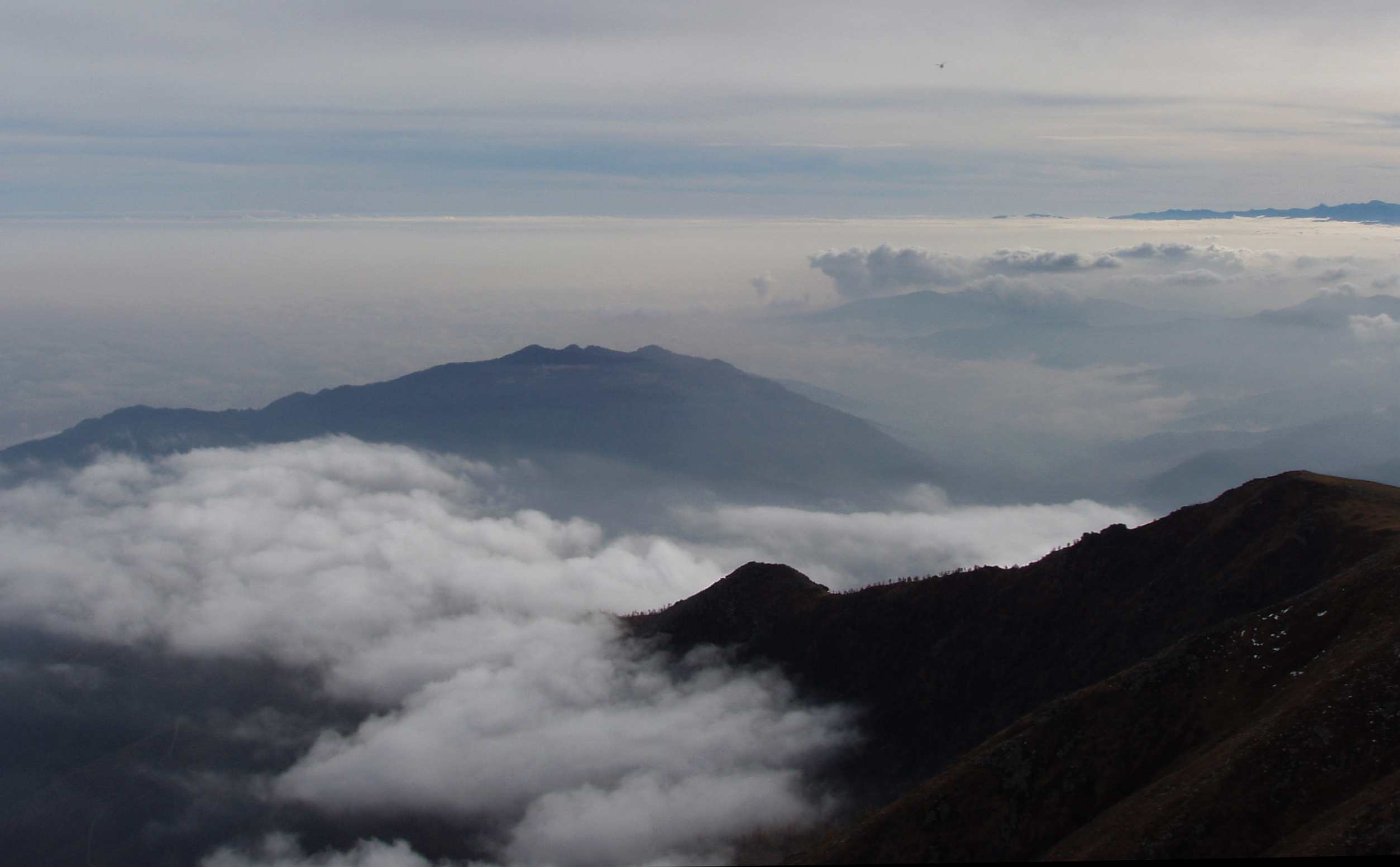 Mount Bracco from Punta Ostanetta (CN, Italy)